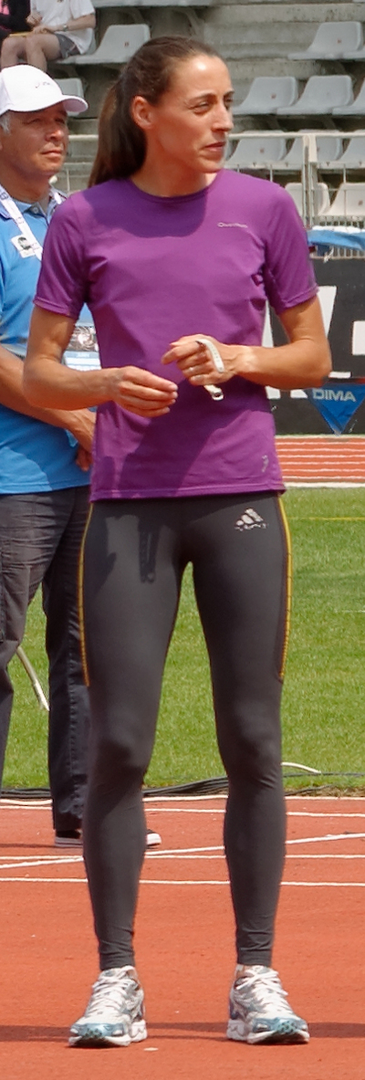 Contestants in the women's high jump are introduced to the public during the French Athletics Championships 2013 at Stade Charléty in Paris, 13 July 2013.